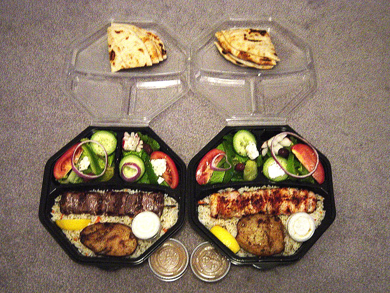 Souvlaki Platter.